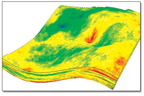 3D Simulation, Scaleup and Visualization Software PRC